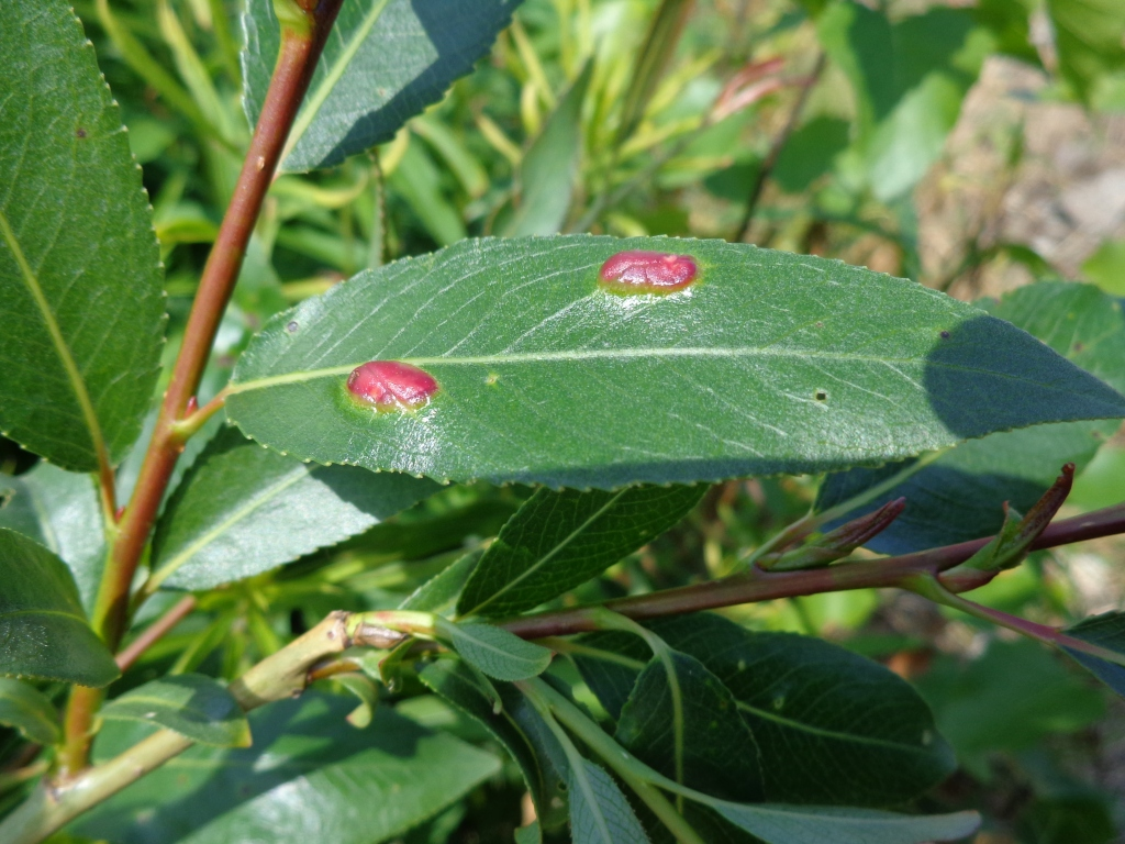 Pontania proxima. Found in Rīga town, Latvia.